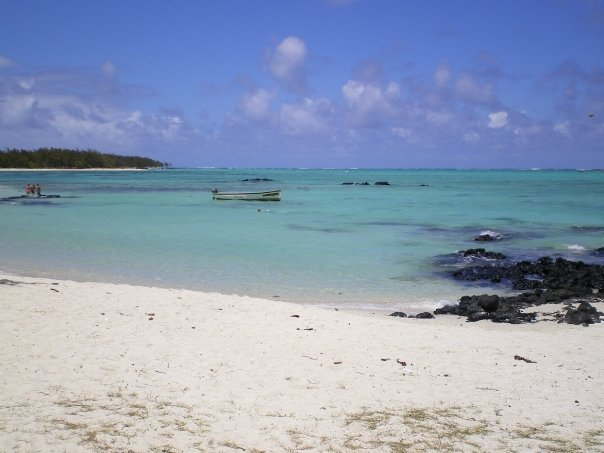 Beach on the Île aux Cerfs, Mauritius Island